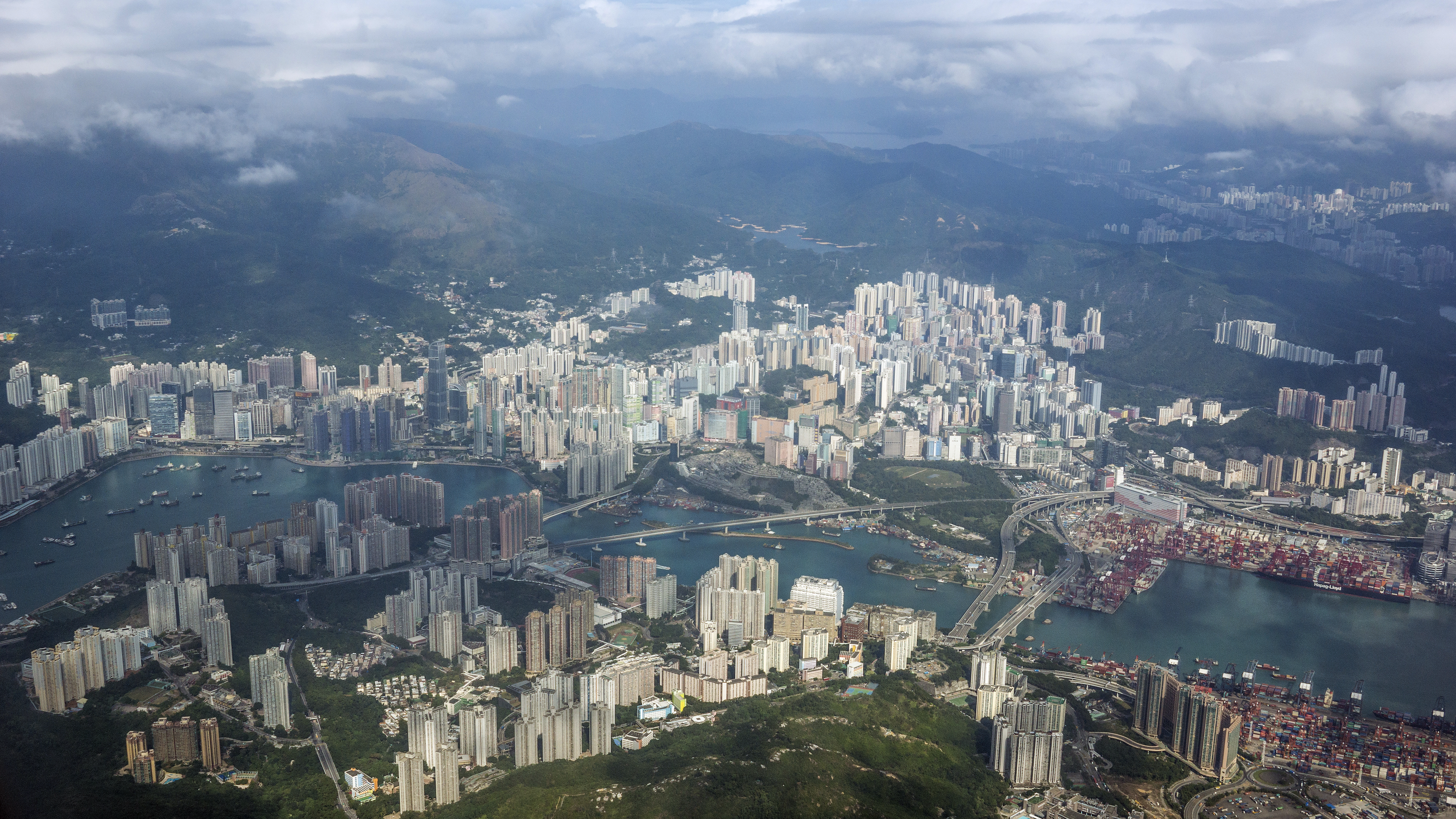 Kwai Ching District